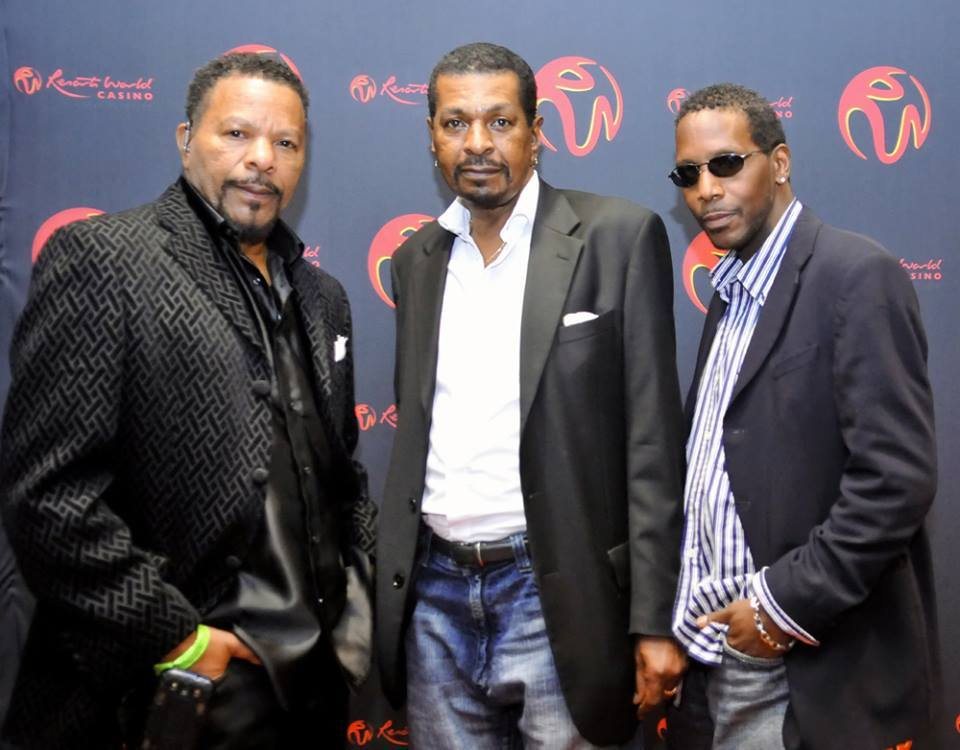 Classic Soul/R&B Group Touch of Class @Resorts World Photo